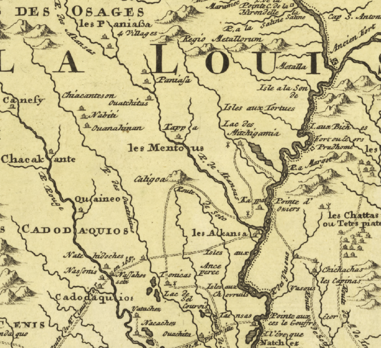 Section of a map of Louisiana showing present day Arkansas and surrounding areas. Scale ca. 1:6,500,000. Original description: "Amplissimæ regionis Mississipi seu provinciæ Ludovicianæ â R.P. Ludovico Hennepin Fransisc. Miss in America Septentrionali anno 1687. Detectae, nunc Gallorum coloniis et actionum negotiis toto orbe celeberrimæ, nova tabula edita à Io. Babt. Homanno, S.C.M. geographo"